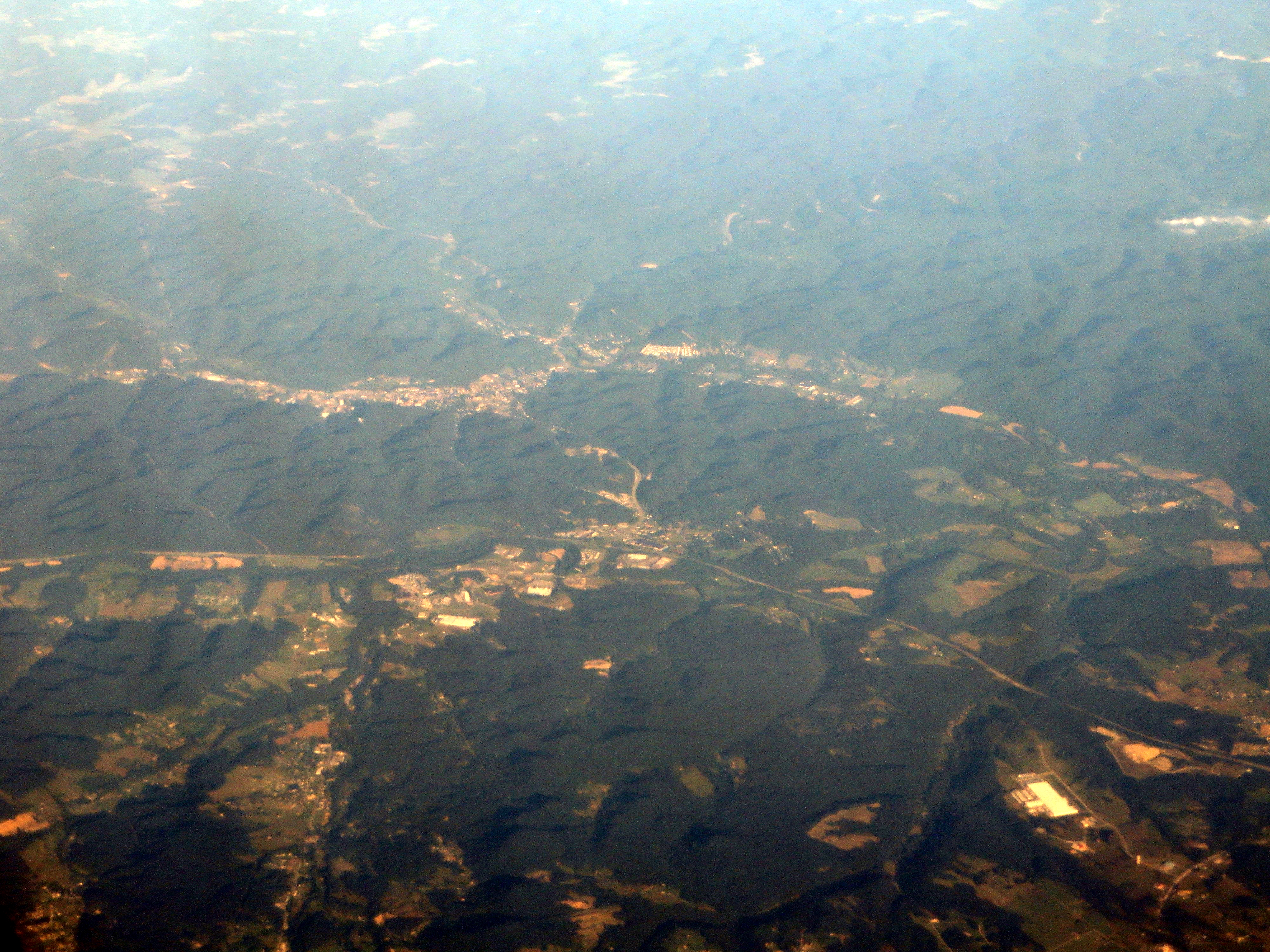 Morehead is a 4th-class city located along US 60 (the historic Midland Trail) and Interstate 64 in Rowan County, Kentucky, in the United States. It is the seat of its county. The population was 6,845 at the time of the 2010 U.S. census. It was the focal point of the Rowan County War and is the home of Morehead State University. In the 1880s, Morehead became the central stage for a notorious conflict known as the Rowan County War or the Martin–Tolliver–Logan Feud. During a number of skirmishes for the next few years, at least 20 people were killed and possibly 100 were wounded. Beginning with an election-day barroom brawl, several gunfights took place in Morehead and the surrounding countryside. Eventually, a group led by Craig Tolliver seized political control of the town and installed allies in the county sheriff's and county attorney's offices as well as at the office of the town marshal. Several members of the opposing faction were arrested on trumped-up charges, and some were killed when the faction in power falsely claimed they had resisted arrest. The conflict gained national attention and on two occasions the governor sent troops to maintain order with little effect. Eventually a posse of as many as 100 individuals was organized and armed by Daniel Boone Logan with the tacit consent of Gov. J. Proctor Knott and Governor-elect Simon Buckner. In a dramatic two-hour gun battle through the center of Morehead, several Tollivers (including Craig) were killed and the Tollivers' control of the county was broken. Two men were later held to trial for the murder of Craig Tolliver but were acquitted.